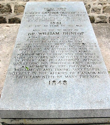 Tombstone of Robert and William Dunlop. Coordinates N 43 45.538 W 81 42.086